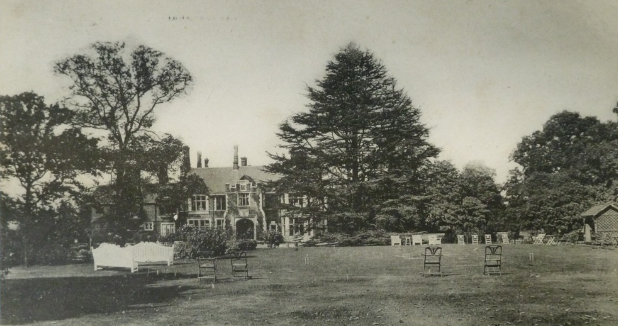 Chorleywood House, Hertfordshire, 1904